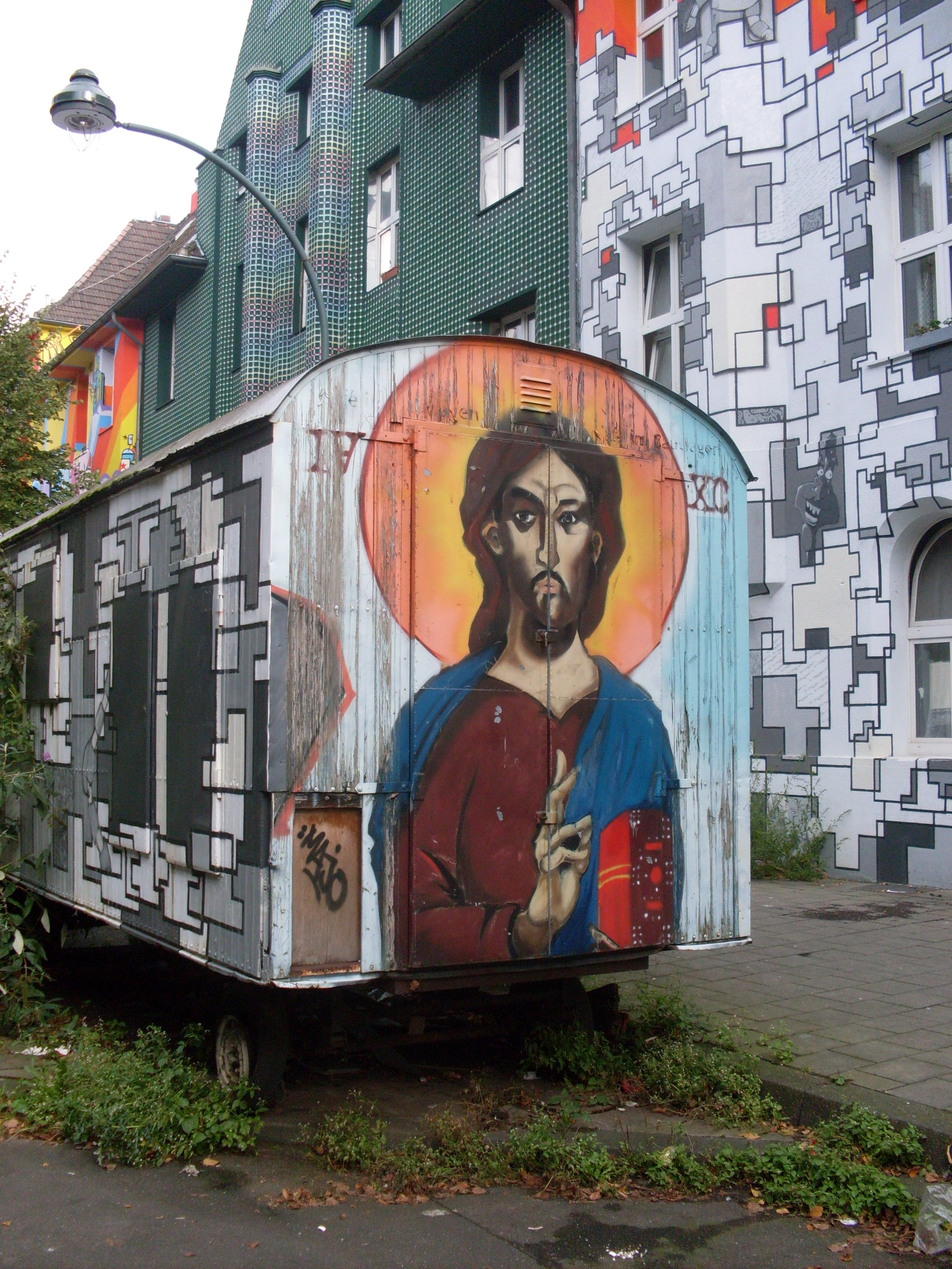 Duesseldorf Streetart at Kiefernstrasse